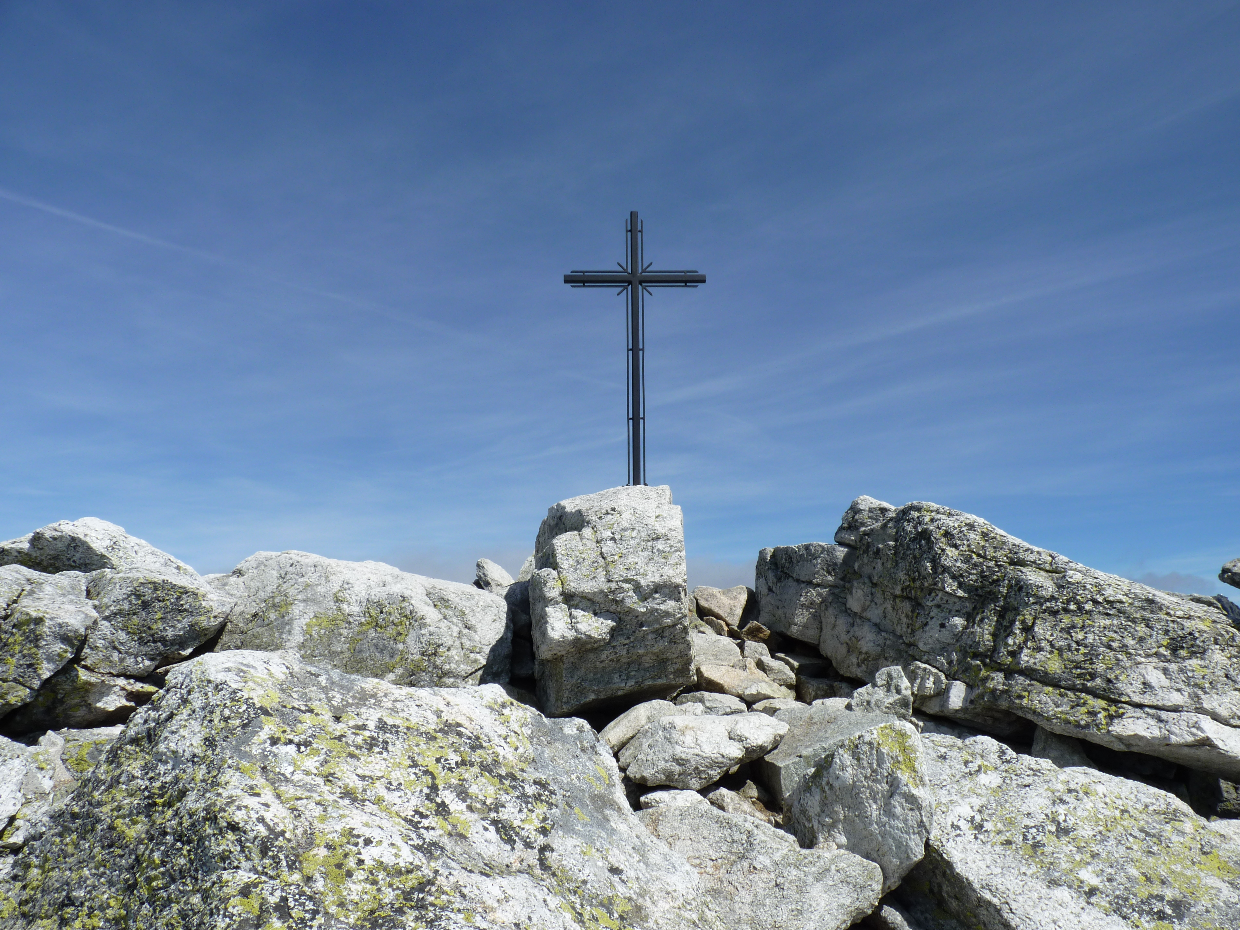 Slavkovský štít, Tatra Mountains, Slovakia